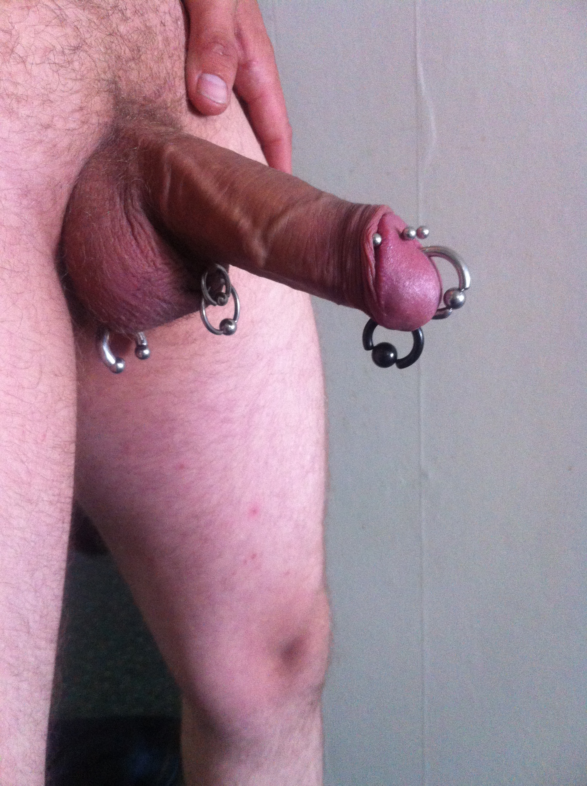 Reverse PA, PA, Dydoes